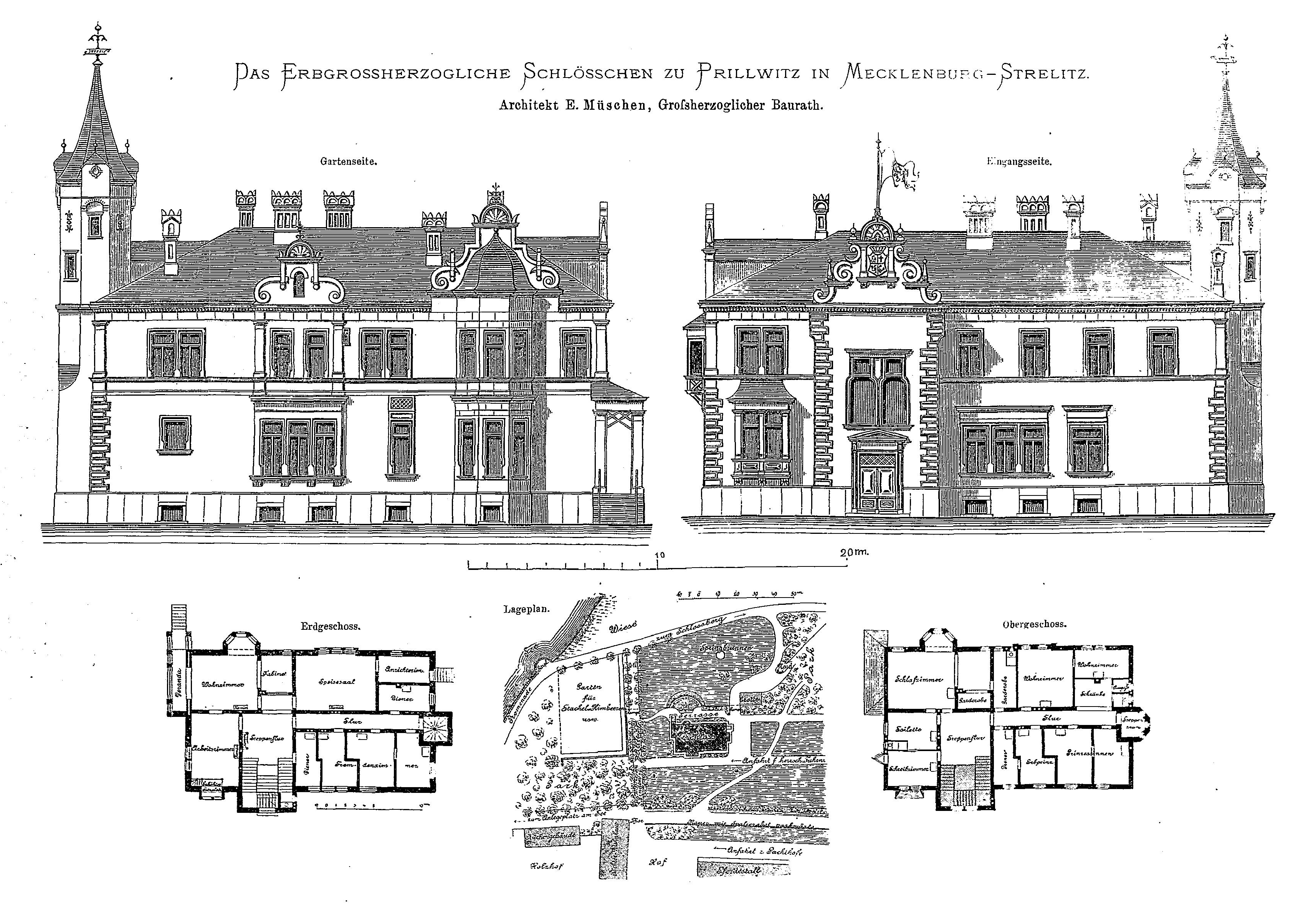 Jagdschloss Prillwitz, built 1887-1889 for the Grand Duke of Mecklenburg-Strelitz, design by architect Eugen Müschen